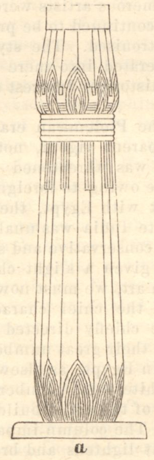 Depiction of a papyrus column.